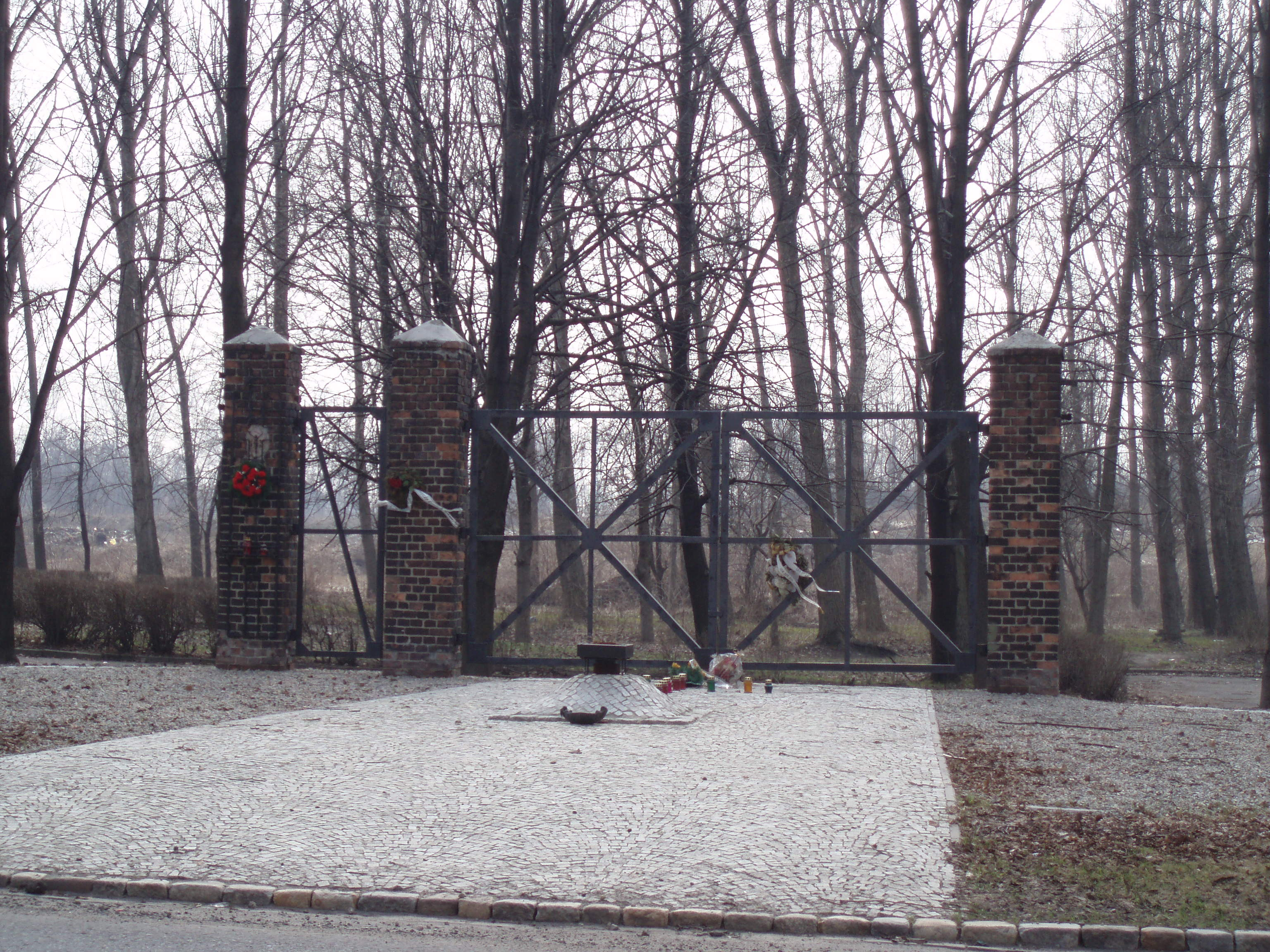 German concentration camp Eintrachthütte - main gate - monument. Świętochłowice, Upper Silesia, Poland